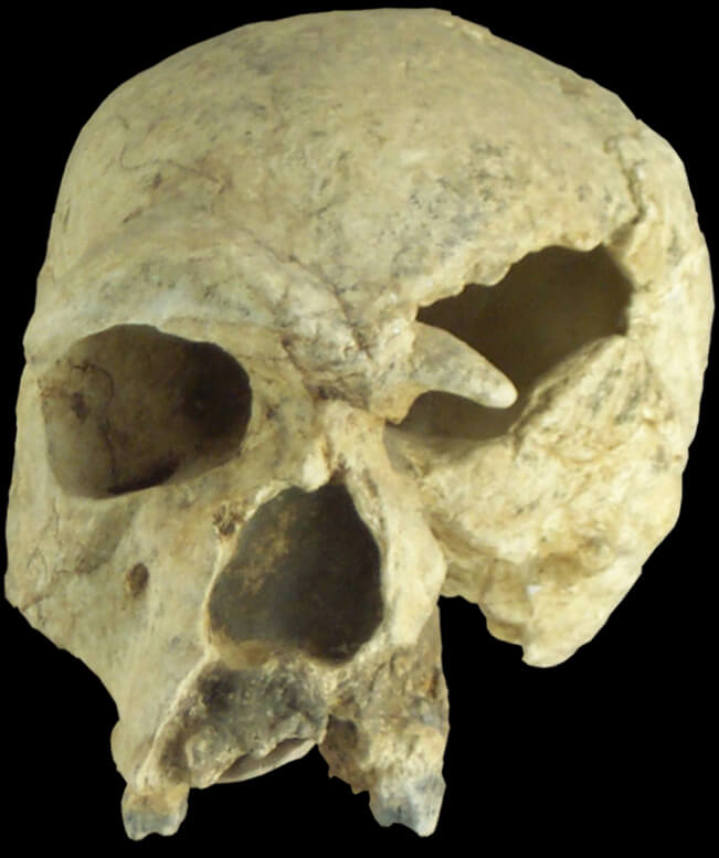 "Steinheimer skull" (Homo sapiens or Homo heidelbergensis) ((english wikipedia) 250.000 years old (replik, Urmenschmuseum Steinheim)